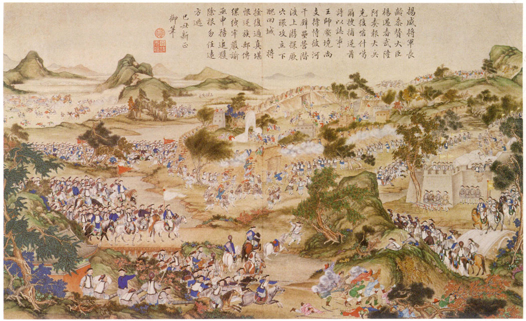 A scene of the Chinese Campaign against Rebels in the East turkestan, 1828